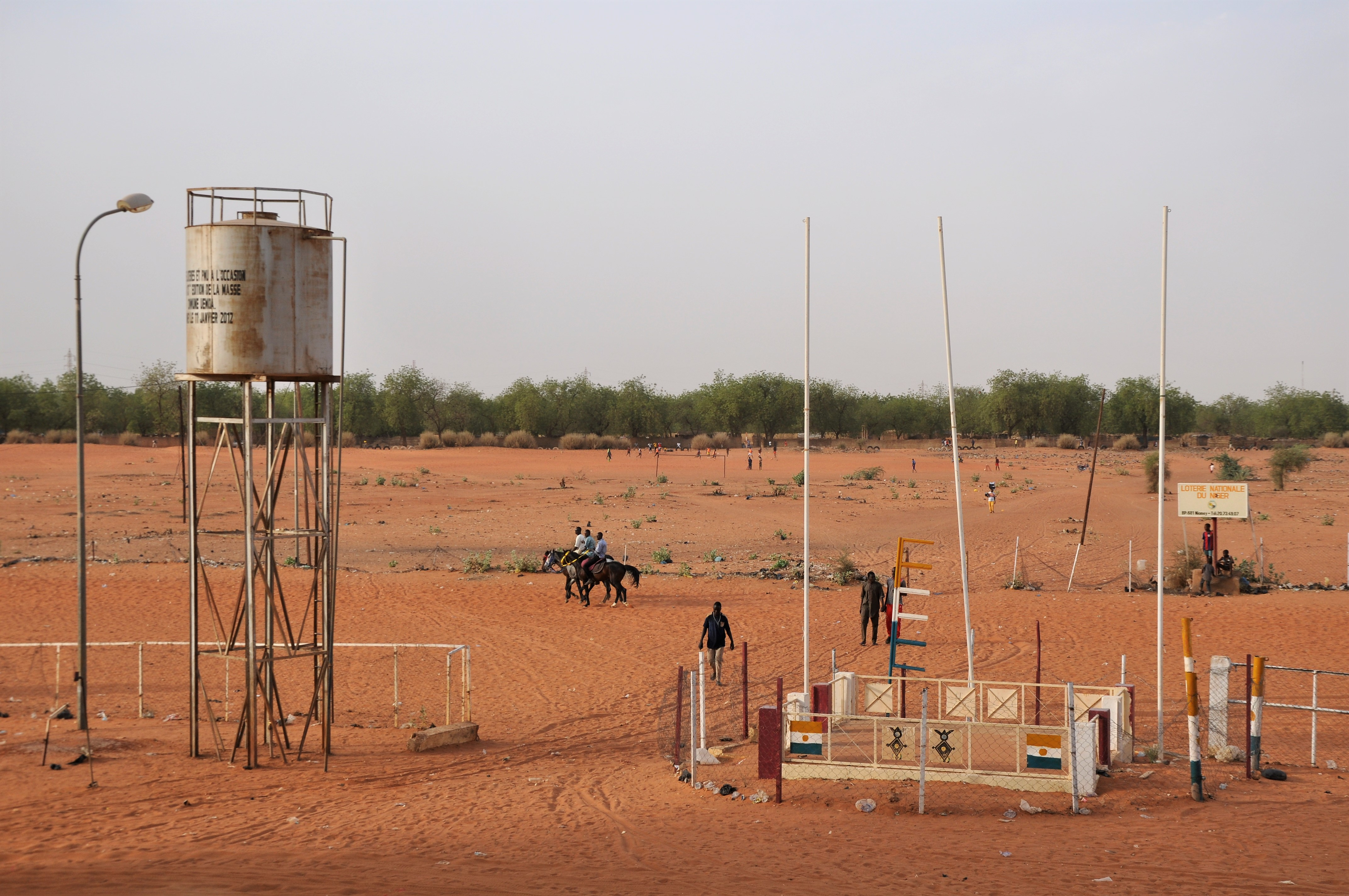 The hippodrome (horse racecourse) in Niamey, Niger.